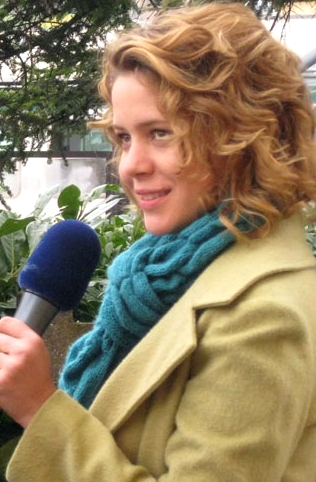 Brazilian actress Leandra Leal in Tuscany (Italy), for TV show Passione, in April 2010